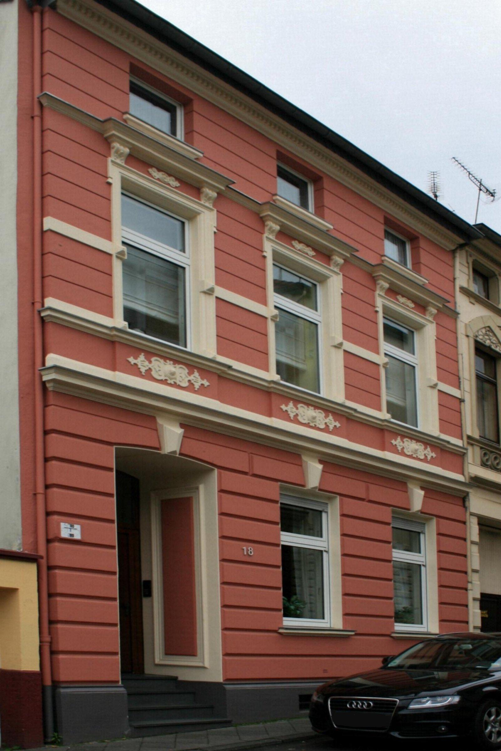 Cultural heritage monument No. L 026 in Mönchengladbach